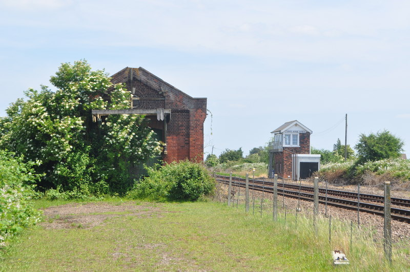 Three Horse Shoes signal box and goods shed, between Whittlesea and March, Cambridgeshire, England.